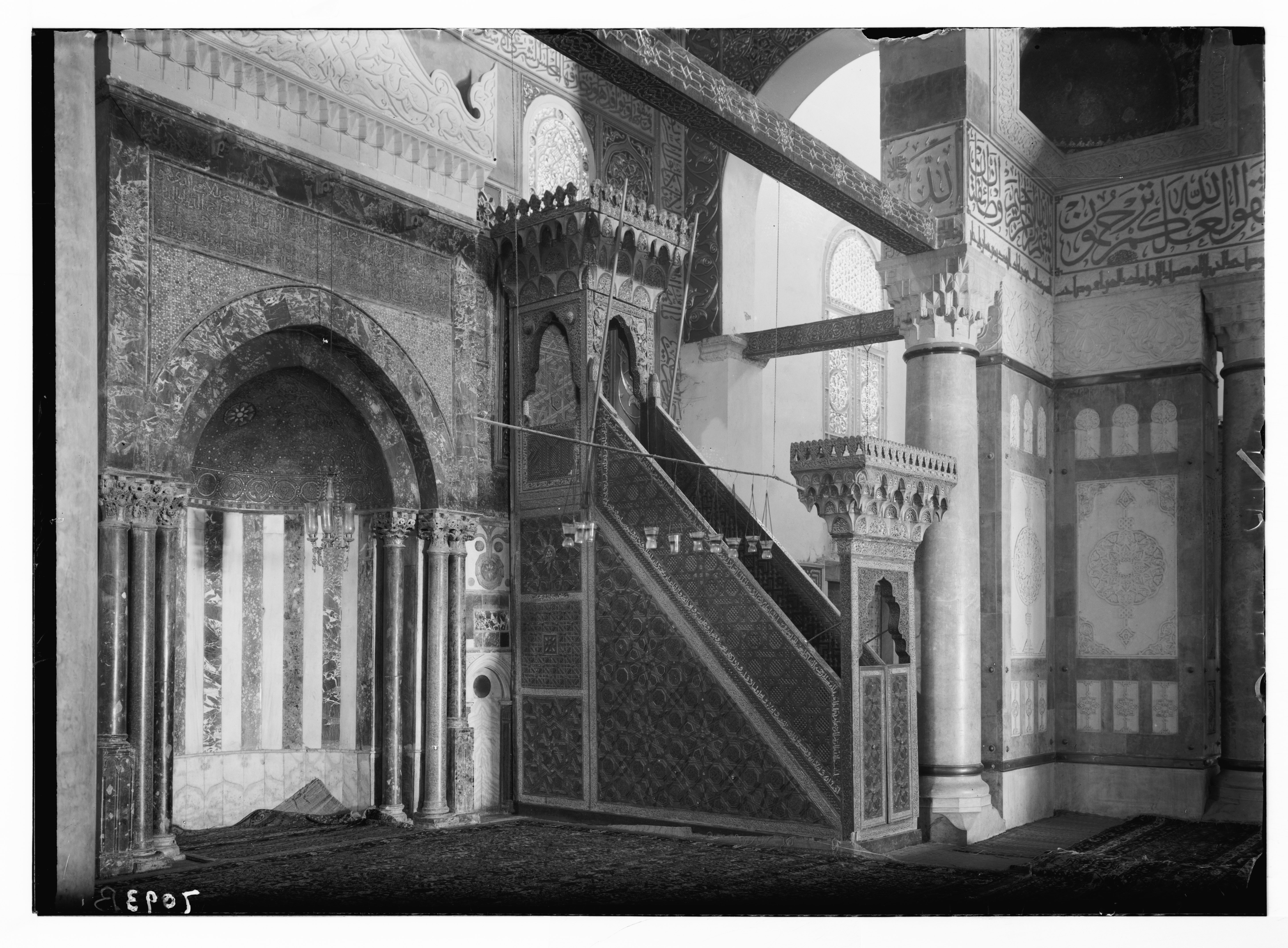 Title: El Aksa [i.e., al-Aqsa] Mosque. Cedar pulpit & mihrab Abstract/medium: G. Eric and Edith Matson Photograph Collection Physical description: 1 negative